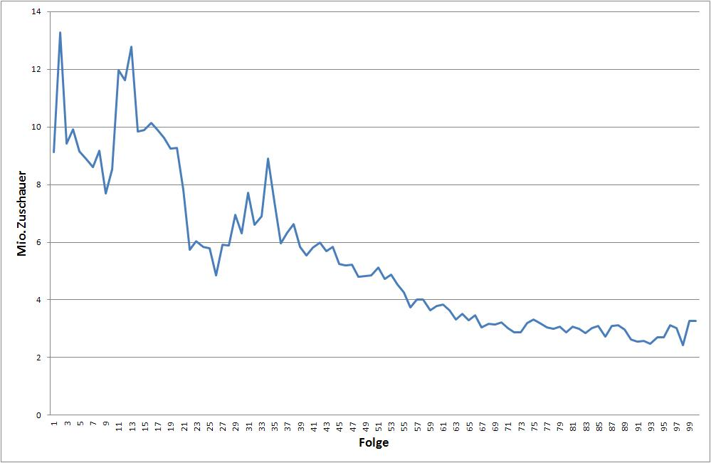 Graphic about the ratings of the US-american TV-Series Fringe (German Version)